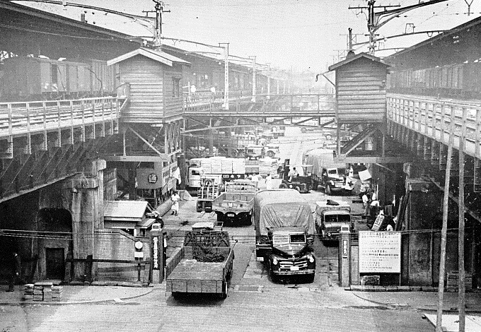 Akihabara Freight Station circa 1960